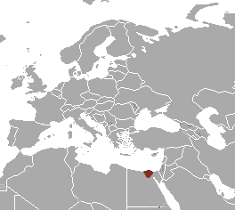 Egyptian Weasel (Mustela subpalmata) range